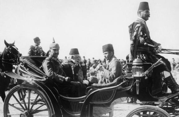 Kaiser Wilhelm II of Germany driving in a state carriage with Sultan Mehmed V of Ottoman Empire and Enver Pasha, Ottoman Minister of War and Commander in Chief of Ottoman forces during the Kaiser's state visit to Istanbul on 15 October 1917.